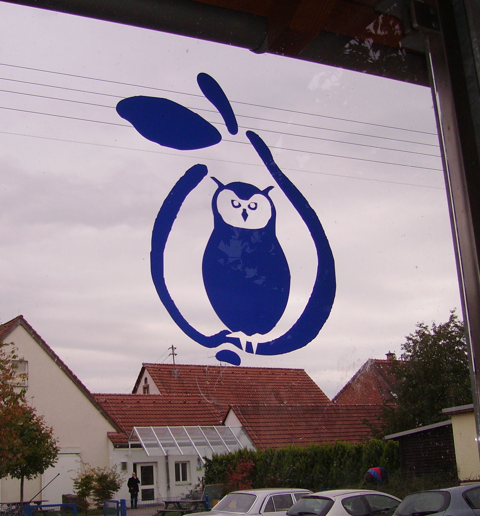 village in Rhineland-Palatinate, Germany